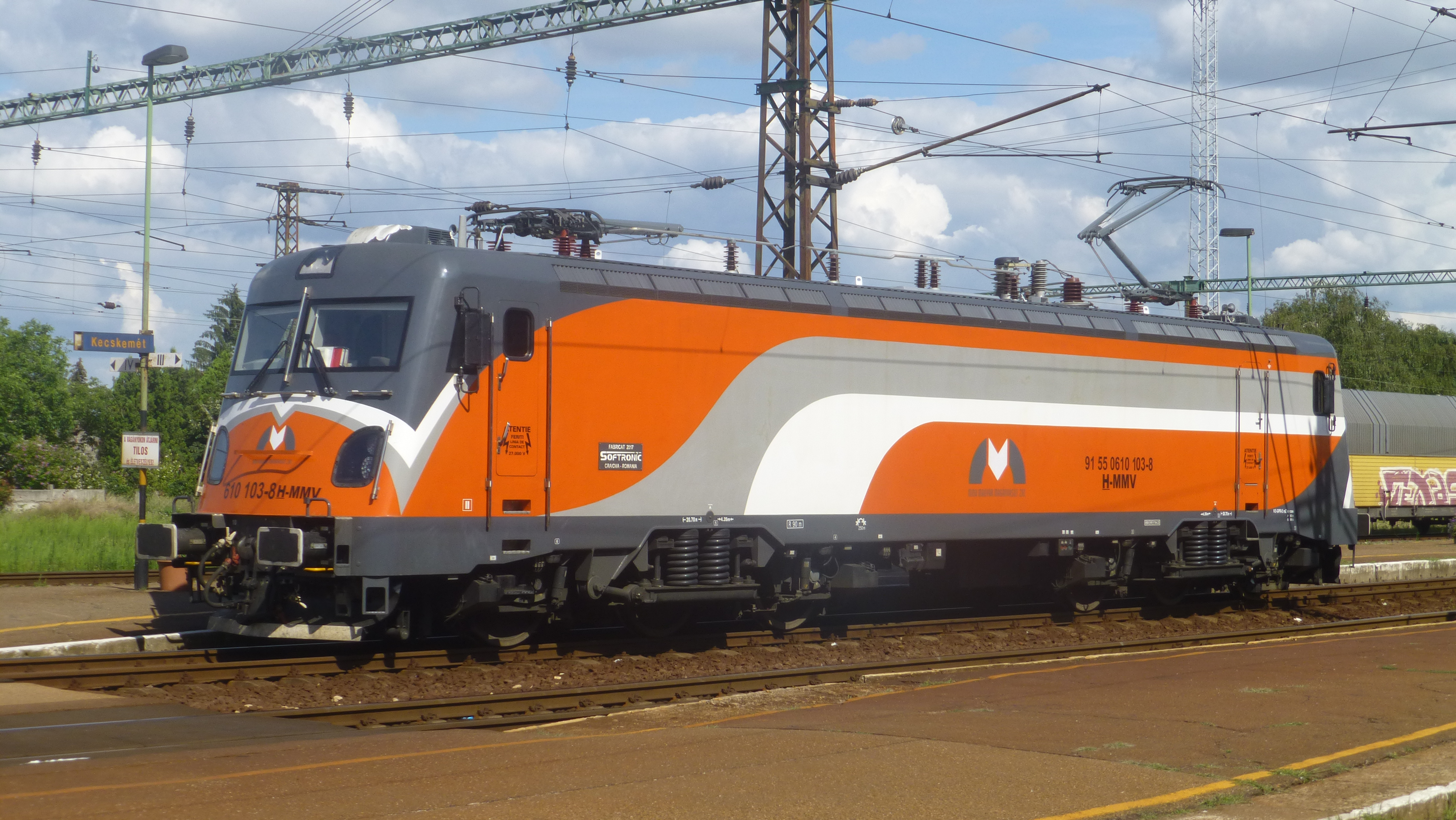 Softronic Transmontana locomotive of the Magyar Magánvasút in Kecskemét, Hungary. The loco was built 2017 in Craiova, Romania under project work number LEMA 026.